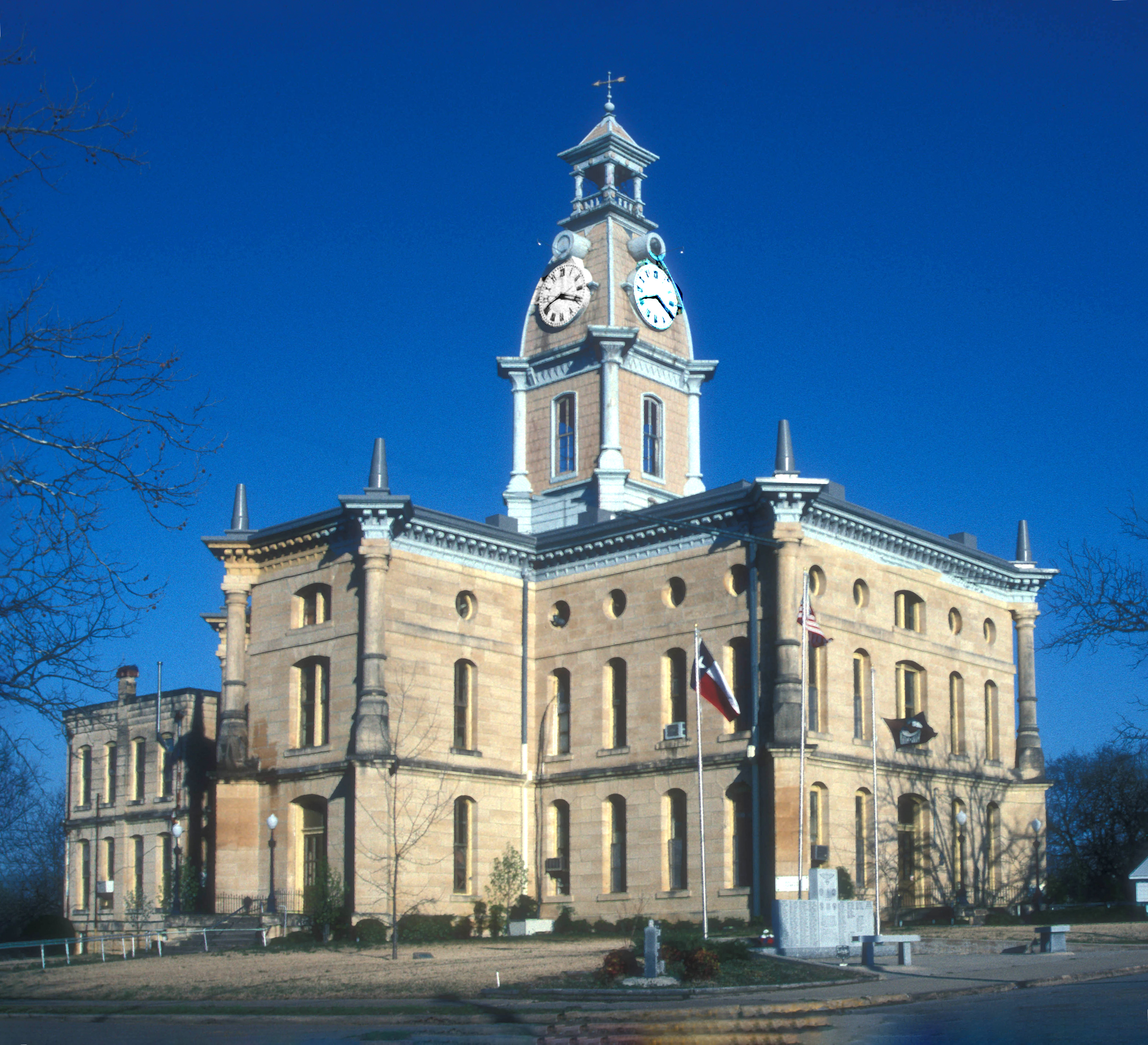 1884; TOWN SQUARE